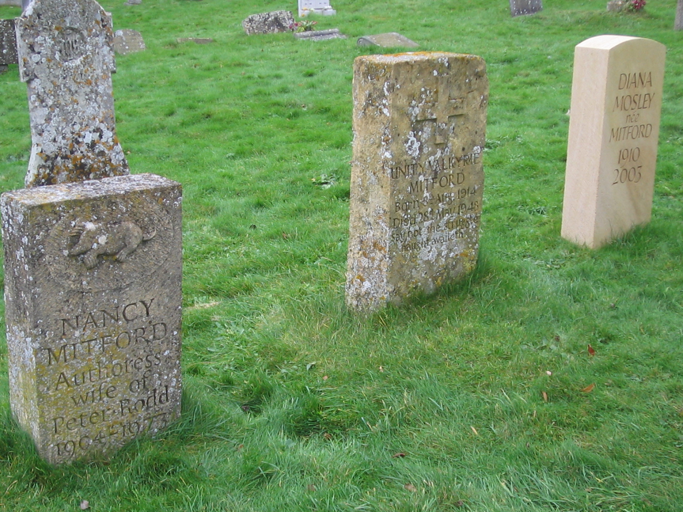 Headstones on the graves of Nancy, Unity and Diana Mitford. Church of England parish church of St. Mary the Virgin, Swinbrook, Oxfordshire.